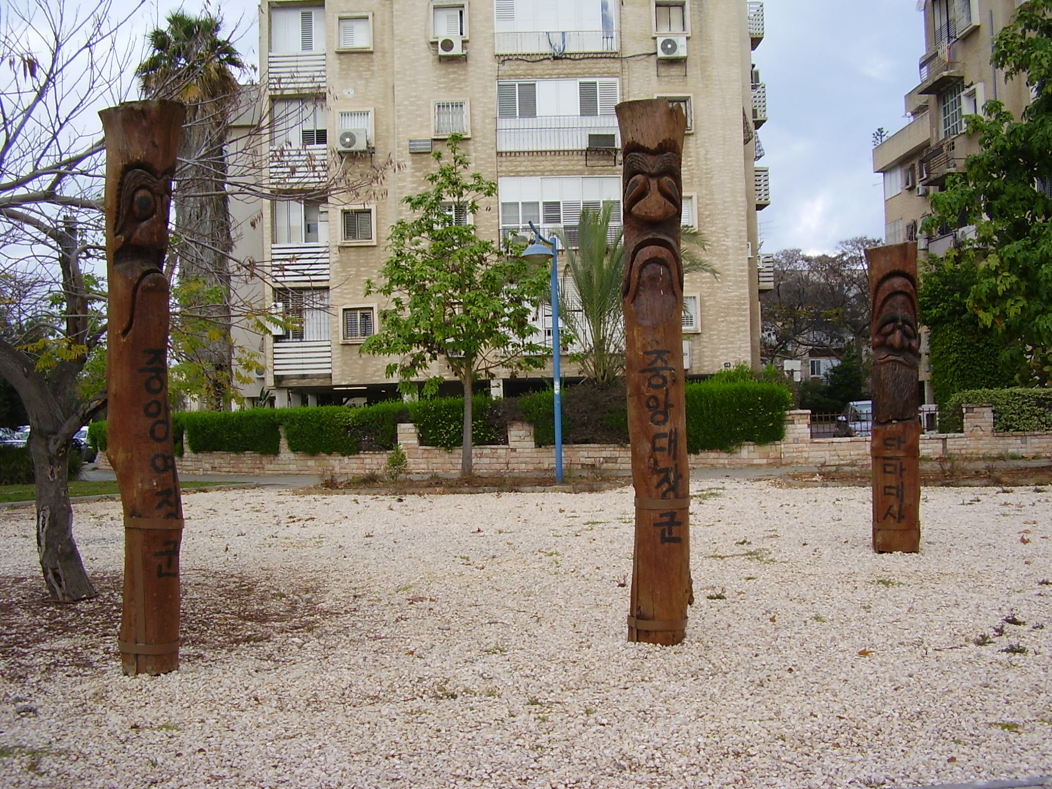 the korean garden in holon